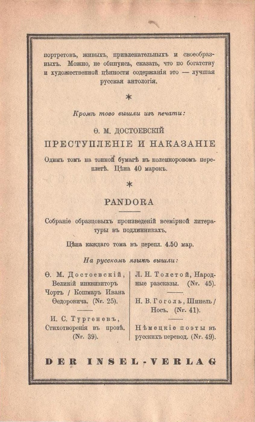 List of Insel Pandora editions in russian language of 1921